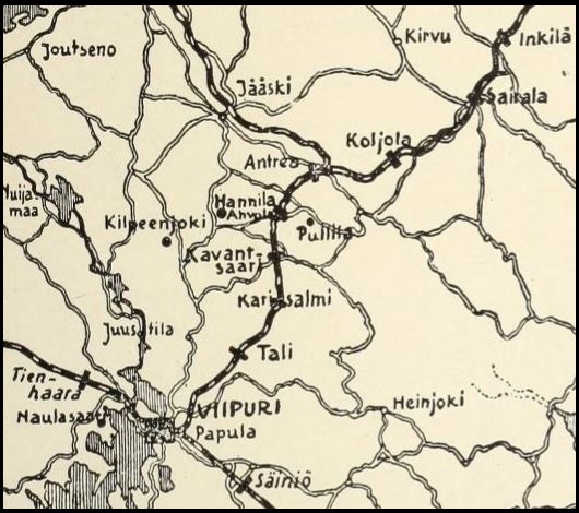 Map of the Antrea Front of the 1918 Finnish Civil War.